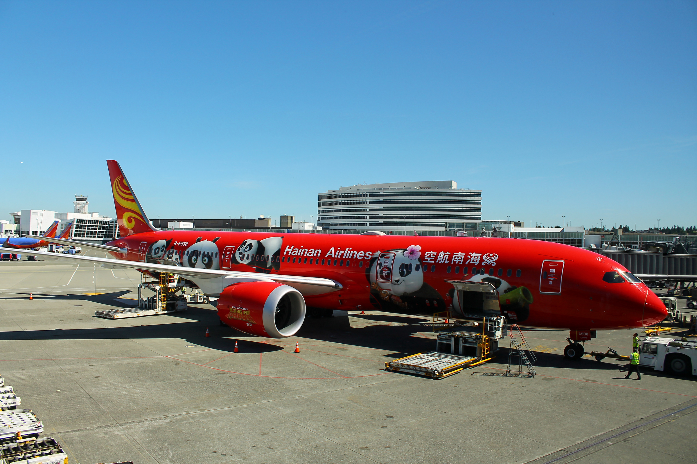 At the gate in Seattle - June 2017